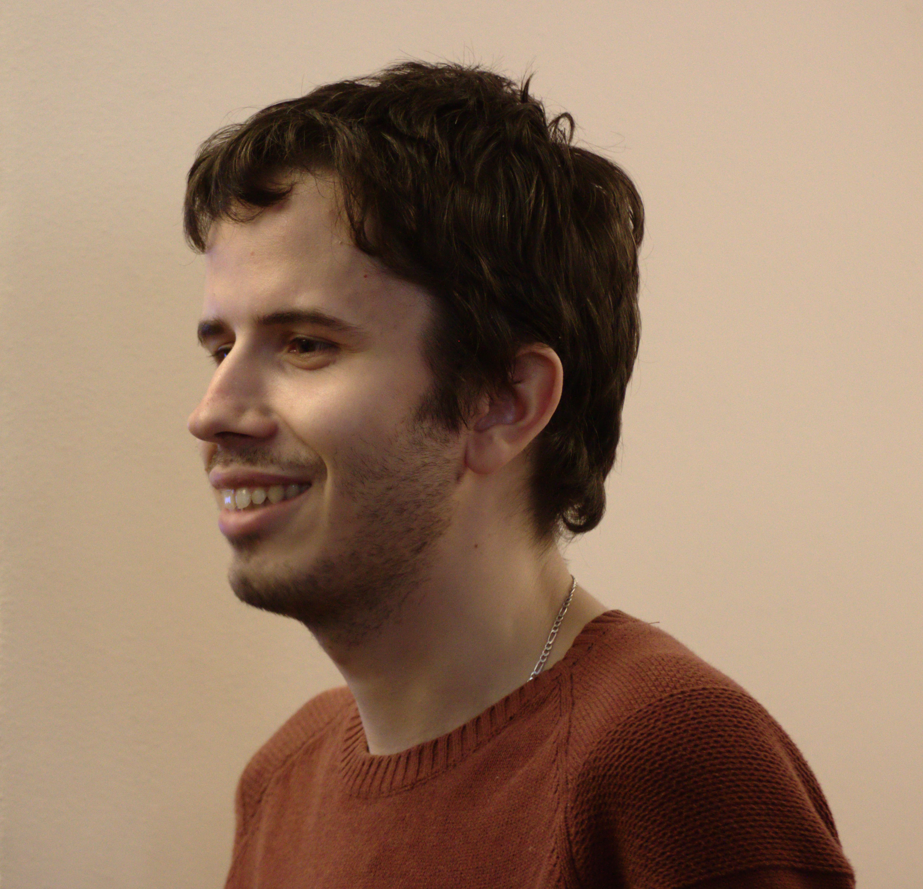 Marek Blahuš, participant of the Czech Wikimedia pre-conference meeting that took one day before the official annual Wikiconference in Haifa